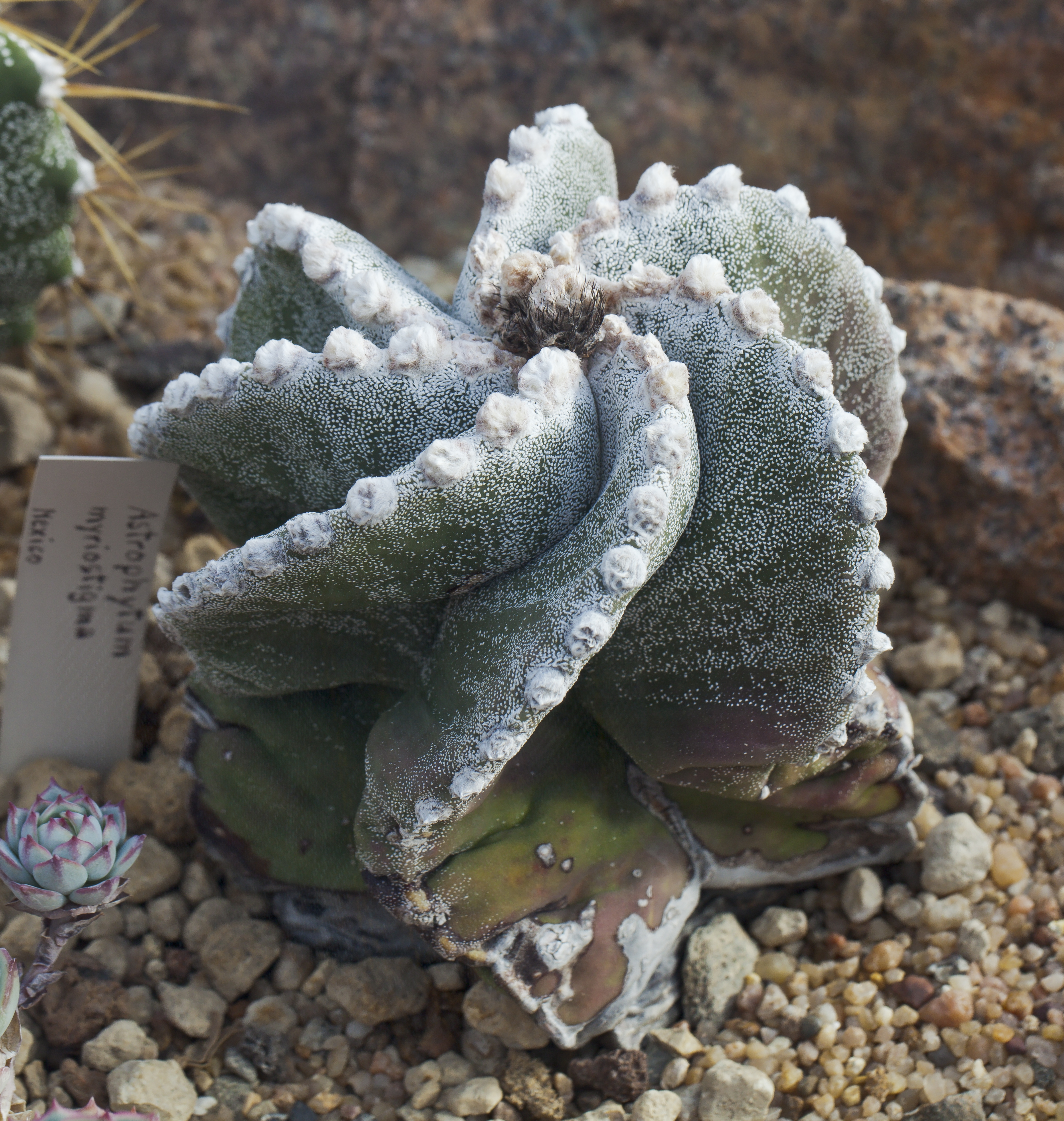 Astrophytum myriostigma, Jardín Botánico de Múnich, Alemania